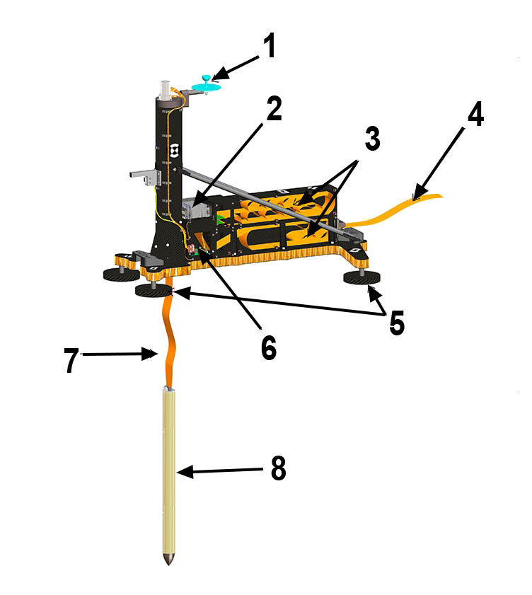 InSight's-HP3-instrument-diagram-without-english-labels